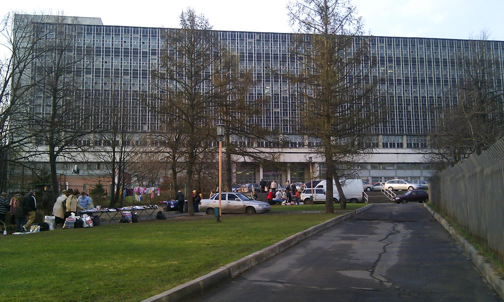 Academician Pilyugin Center